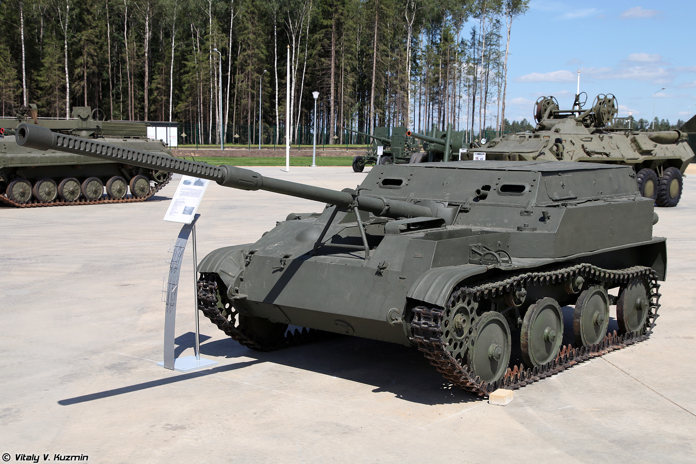 ASU-57 self-propelled gun